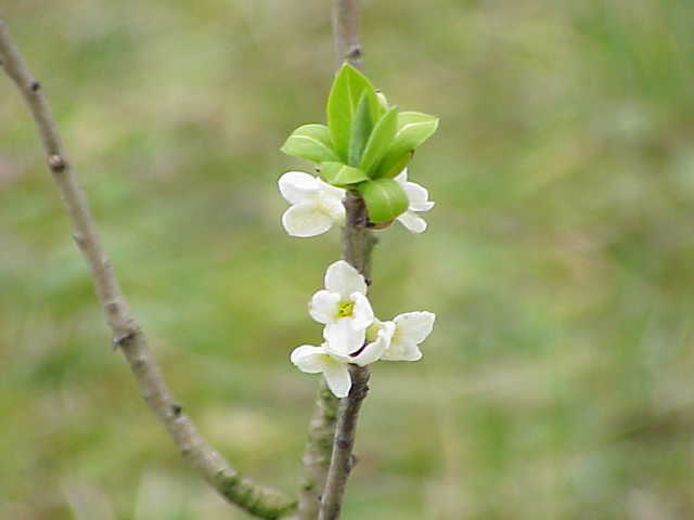 Species: Daphne mezereum Family: Thymelaceae Image No. 3